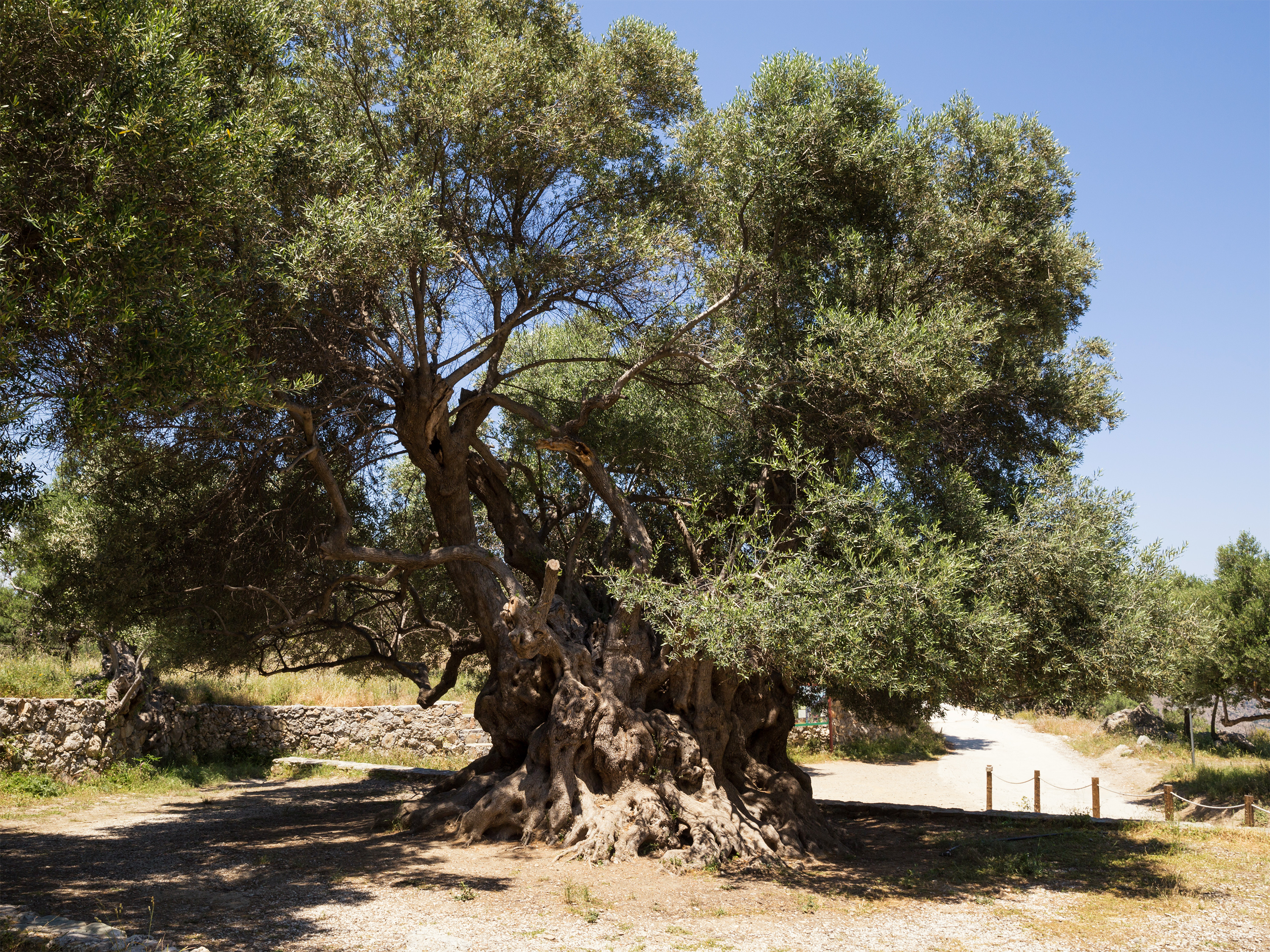 Ancient Olive Tree near Kavouse (Crete)